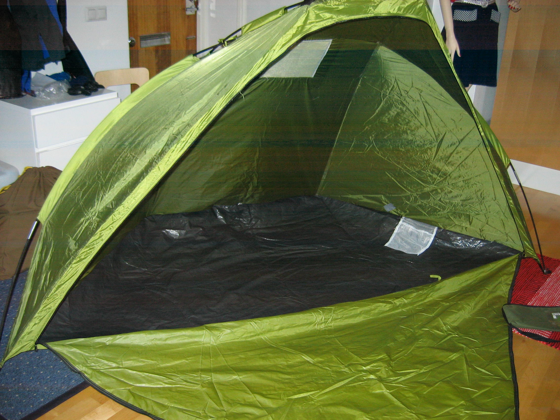 German-made Angler's tent